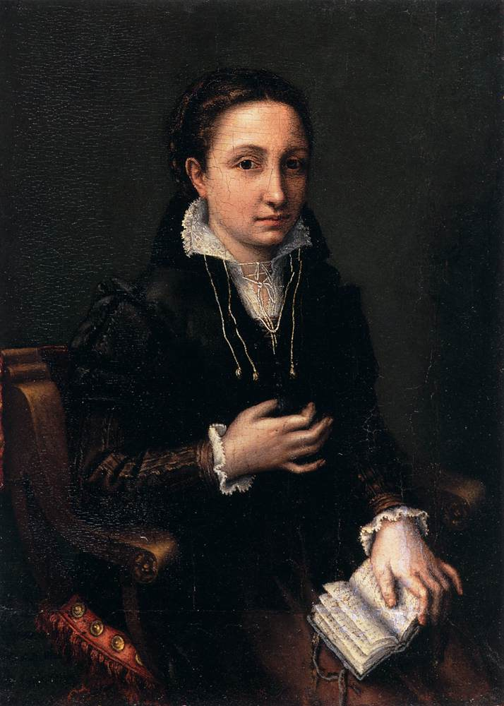 Lucia Anguissola, "Self Portrait" 1557 Oil on panel, 28 x 20 cm Castello Sforzesco, Milan